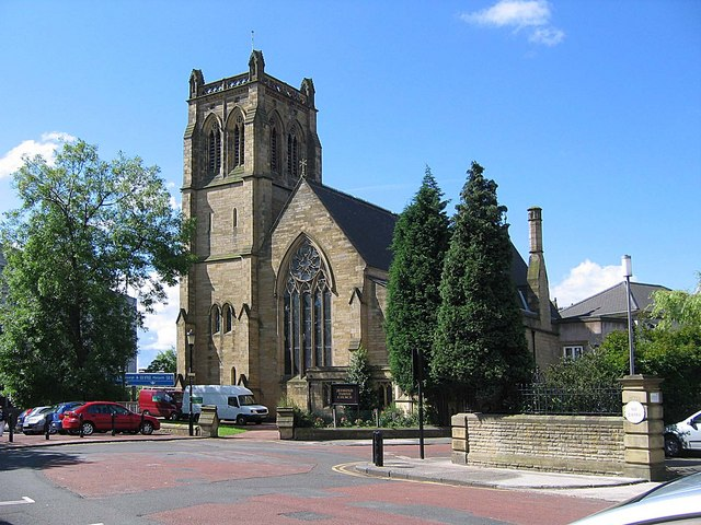 Jesmond Parish Church, Eslington Road, Newcastle upon Tyne, seen from the south